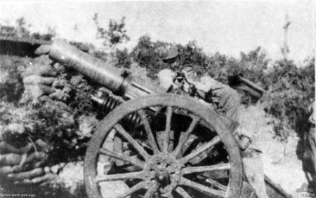 AWM caption : "Gallipoli Peninsula, Turkey. August 1915. Final adjustments being made to an AIF 6 inch howitzer, known as The Kangar, in White's Valley preparing to fire on a Turkish Army gun, known as Beachy Bill, in the Olive Grove".